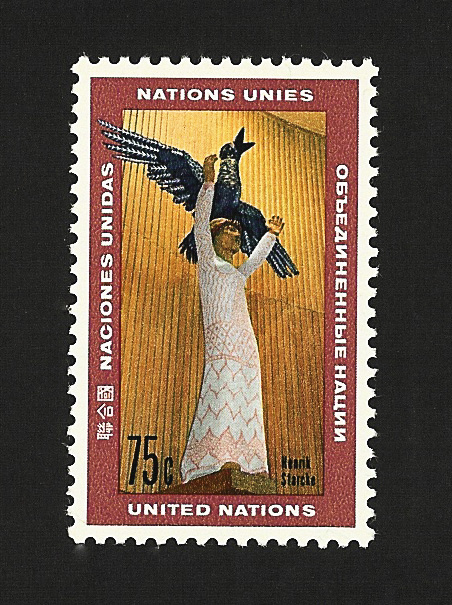 Stamp 1968, UN, Sculpture "Woman with Bird", Henrik Starcke